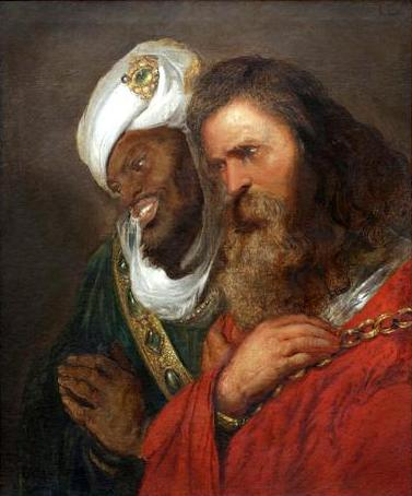 This masterpiece depicts two of the most important men in the crusader era after a decisive moment in battle. King Guy of Lusignan has been portrayed with Christian royal red cloathing and King Saladin has been portrayed with royal Islamic green cloathing. King Lusignan is held captive in golden chains while wearing his armor underneath his cloathing. King Saladin has been depicted wearing magnificent golden regalia while making a religious shape with his hands. The painting shows us how the western world thought of the crusader era and it's subsequent losses during the first quarter of the seventeenth century.